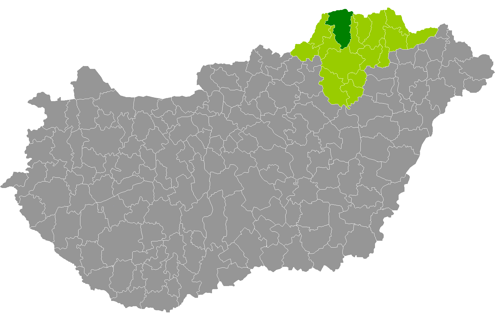 Location of Edelény District, Borsod-Abaúj-Zemplén, Hungary